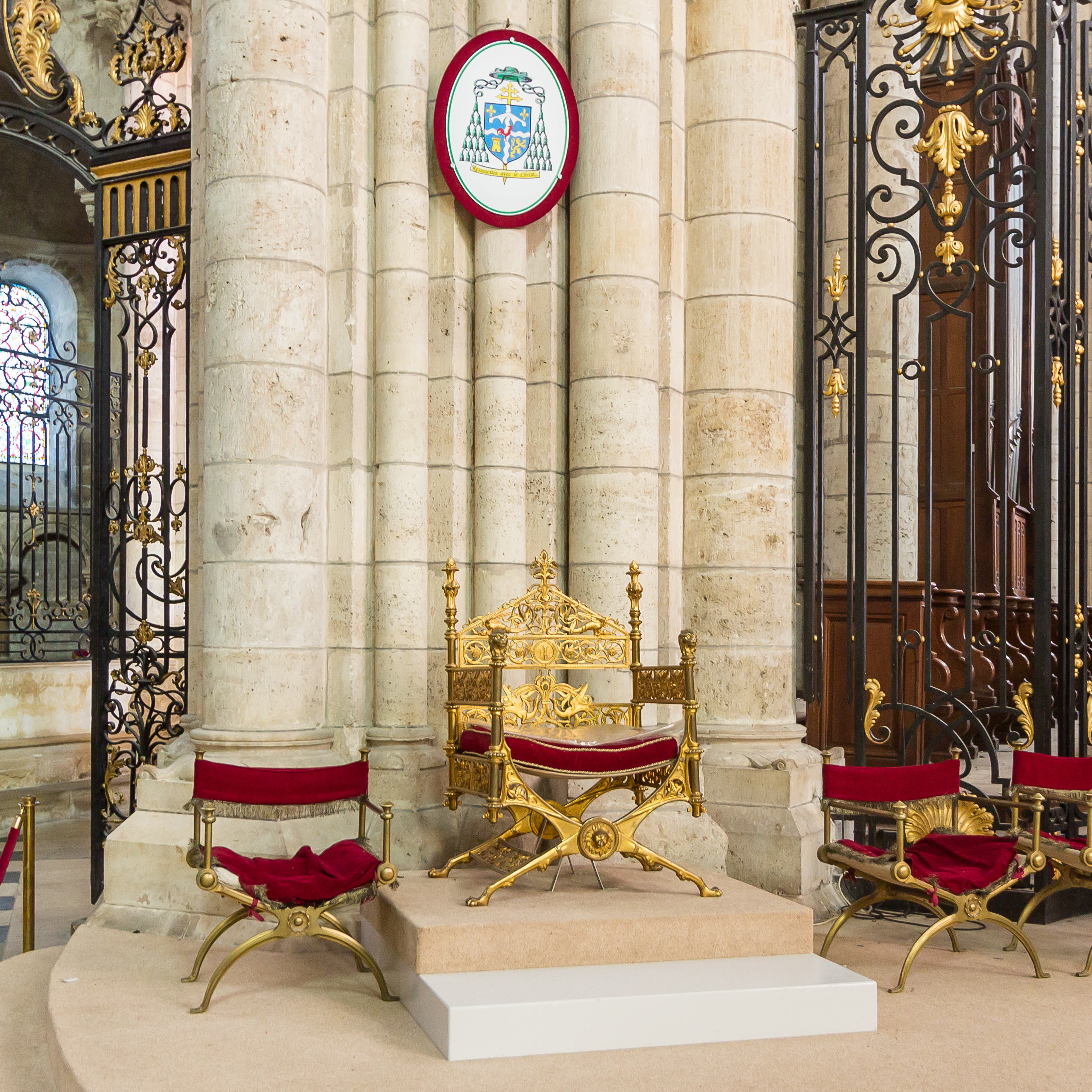 Cathedra in Sens Cathedral, France